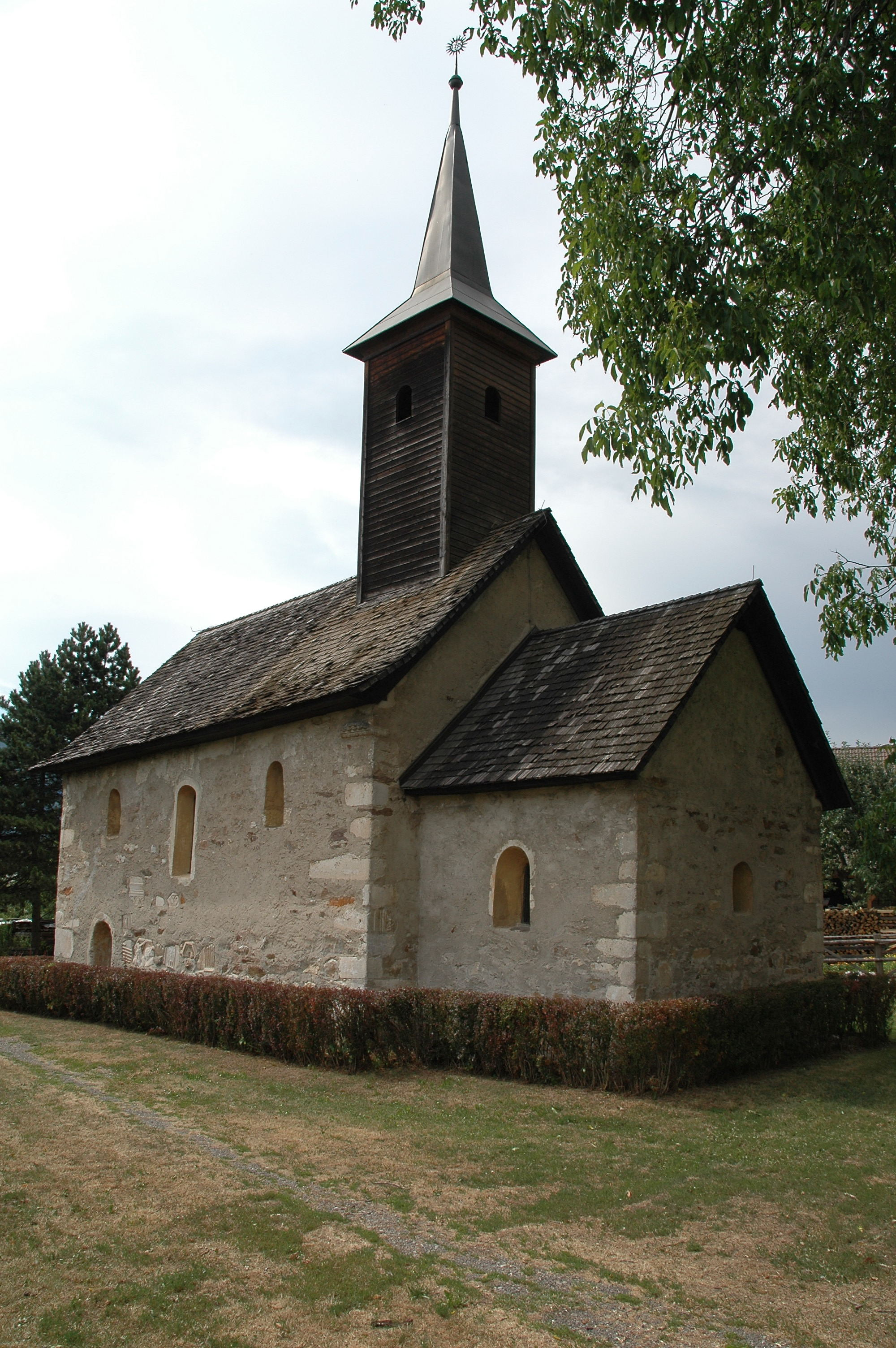 Subsidiary church Saints Philip and James in Gratschach, municipality Villach, Carinthia, Austria, EU